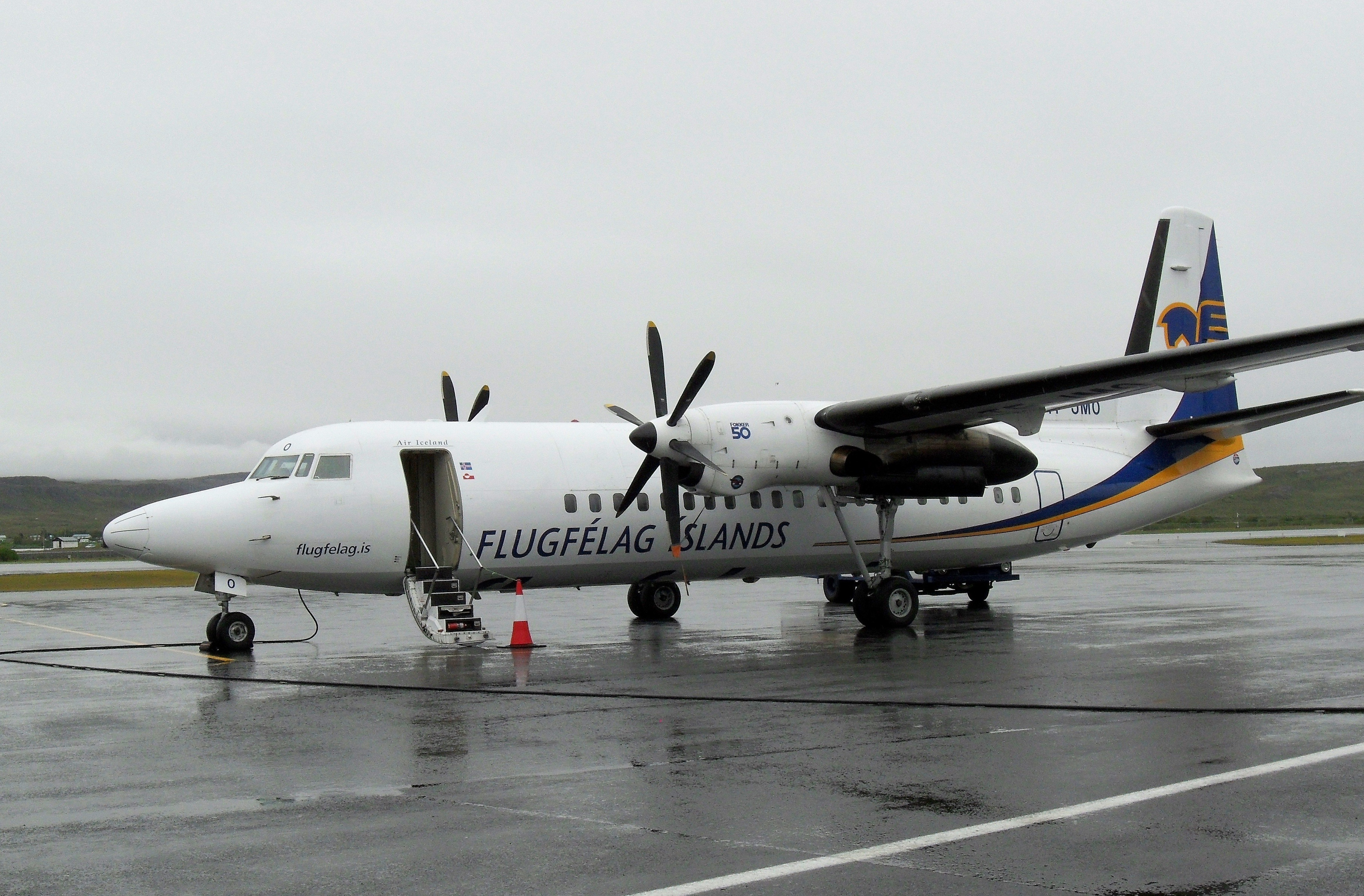 Air Iceland (aka Flugfélag Íslands)